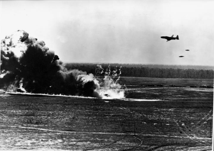 A U.S. Air Force Lockheed F-80C Shooting Star drops two 165 gallon (625 l) Napalm-filled tanks at target during a demonstration for the U.S. President Truman at Eglin Air Force Base in Florida (USA).